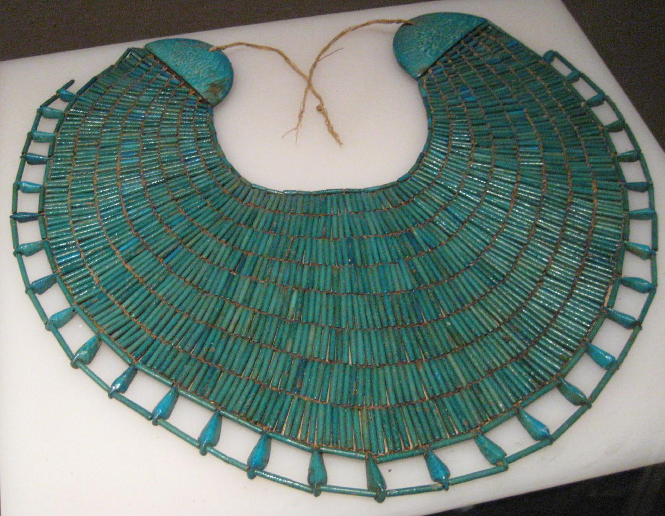 Broad collar Egyptian necklace of the 12th dynasty official Wah from his Theban tomb. In ancient Egypt, both men and women wore jewelry for adornment, magical protection, and as a symbol of status. Broad collar necklaces must have been particularly popular because from the earliest times they are worn by the principal figures in sculpture and wall paintings. Wah, however, could not have worn this turquoise-colored broad collar in life because there is no clasp and the ties are not strong enough to hold it on. It was made of many faience beads specifically for his burial and was simply placed on the front of the mummy while it was being wrapped. (Source: Metropolitan Museum of Art)